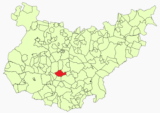 Los Santos de Maimona